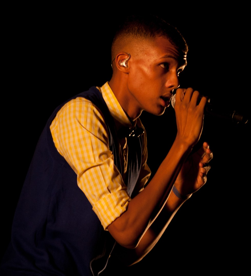 Follow me on facebook Twitter : @didyPhotography All the photographies I've made are now under CC0 (Creative Commons Zero) CC0 - learn more To the extent possible under law, Eddy BERTHIER has waived all copyright and related or neighboring rights to Stromae @ BSF 2011. This work is published from: France.